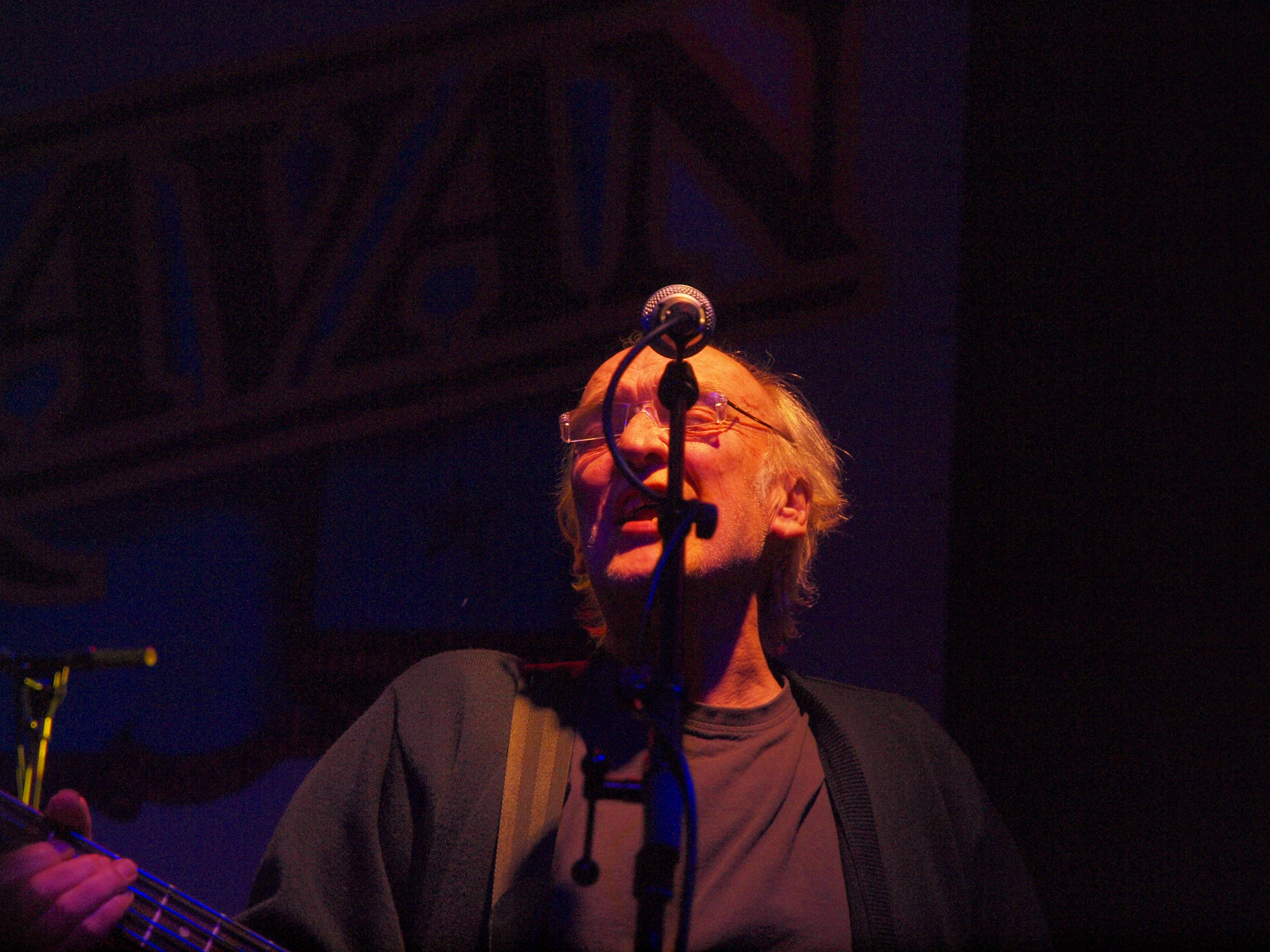 Jim Leverton, Caravan Convention, 27 october 20120